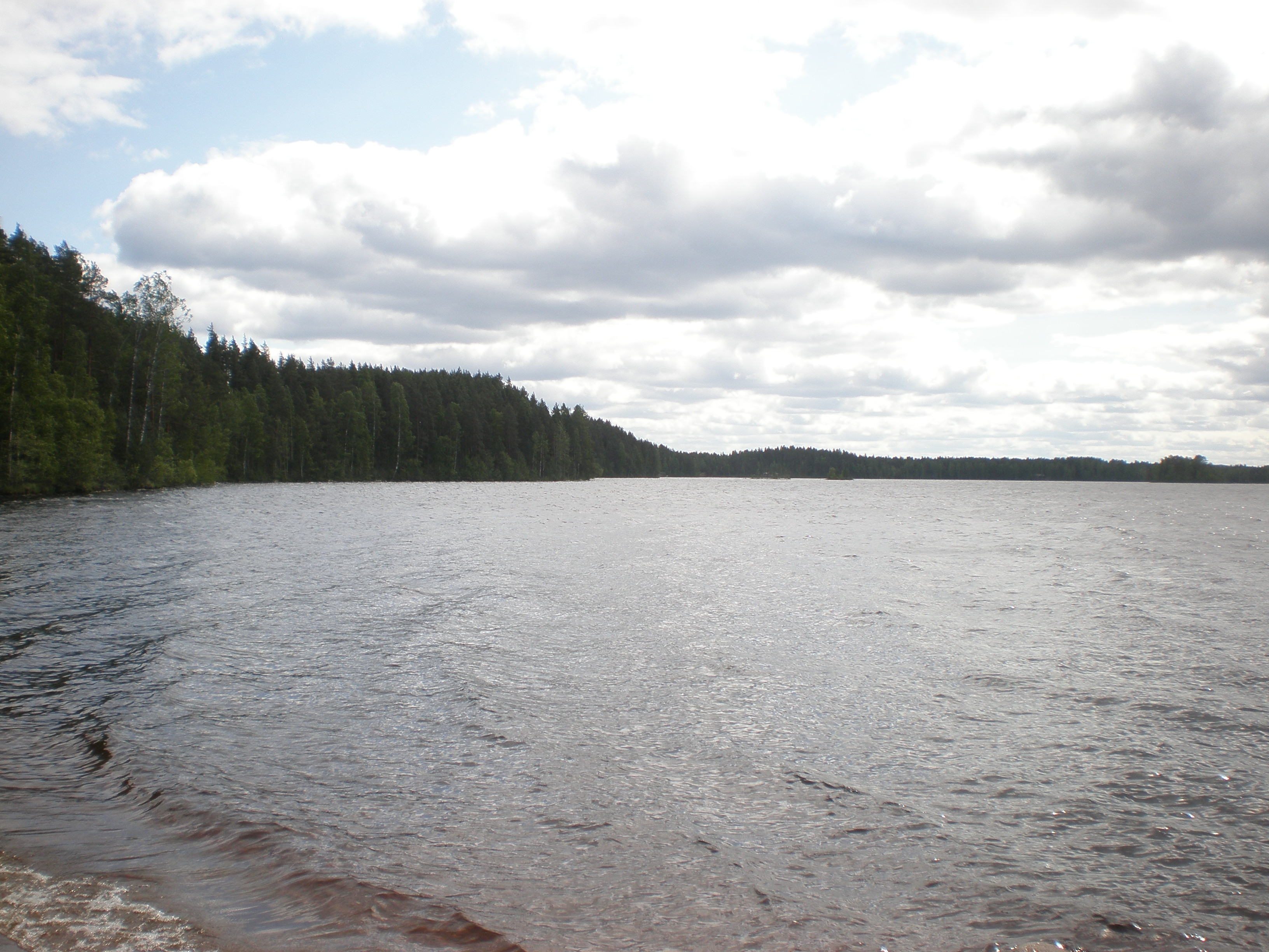 Lake Rutajärvi and Esker Joutsniemi on the left at the Leivonmäki National Park.